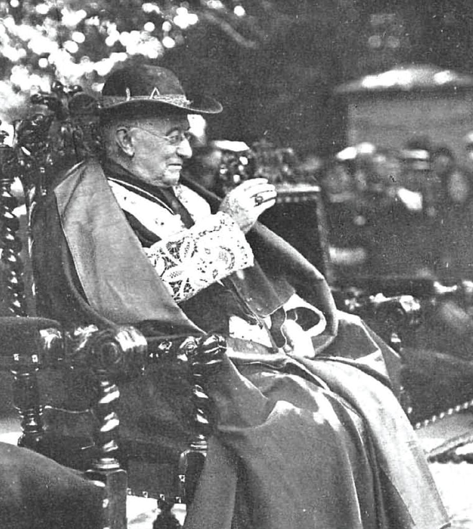 Gregorio Maria Aguirre y Garcia (1835-1913)